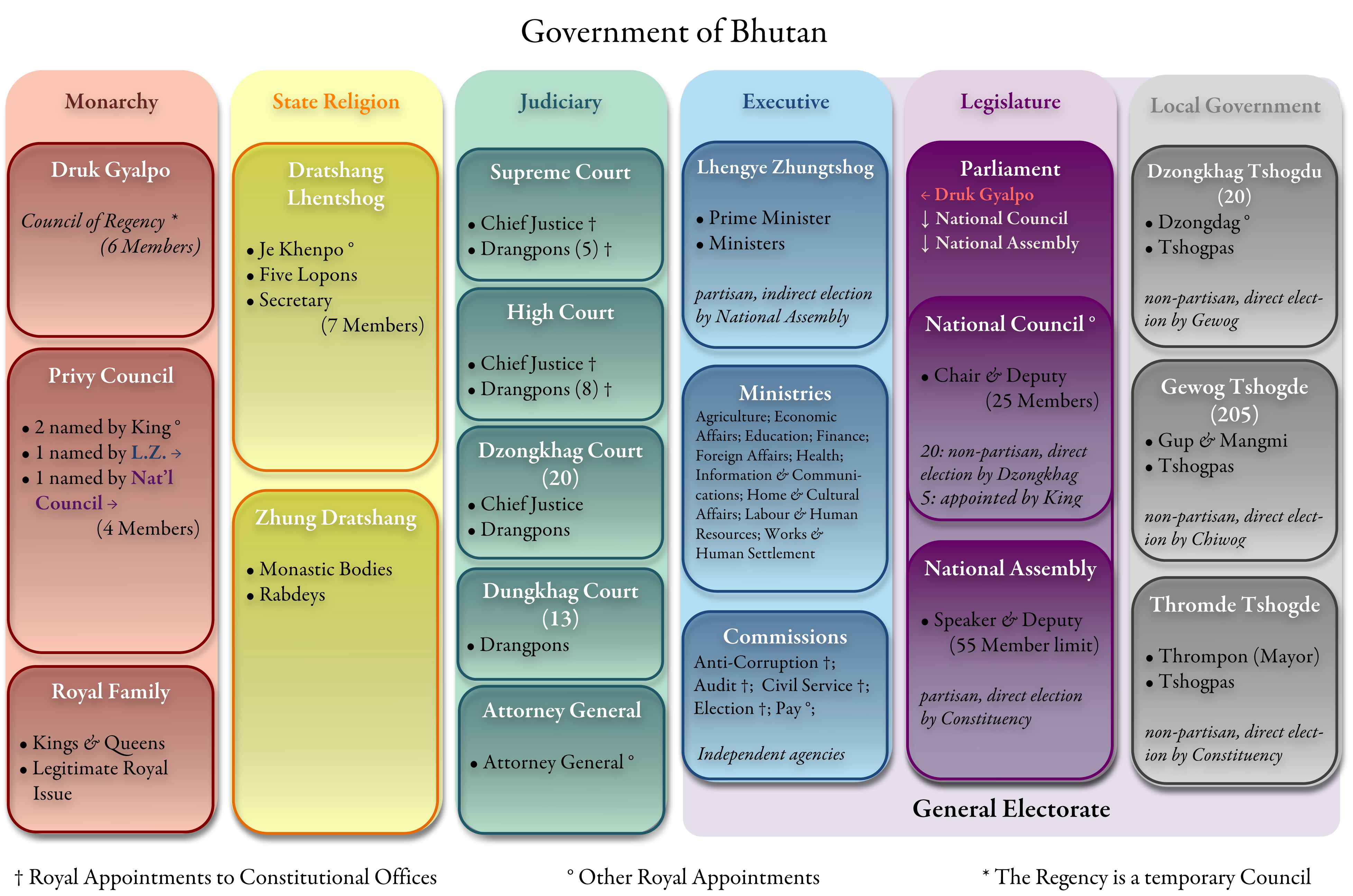 Visual layout of Government of Bhutan under the 2008 Constitution.